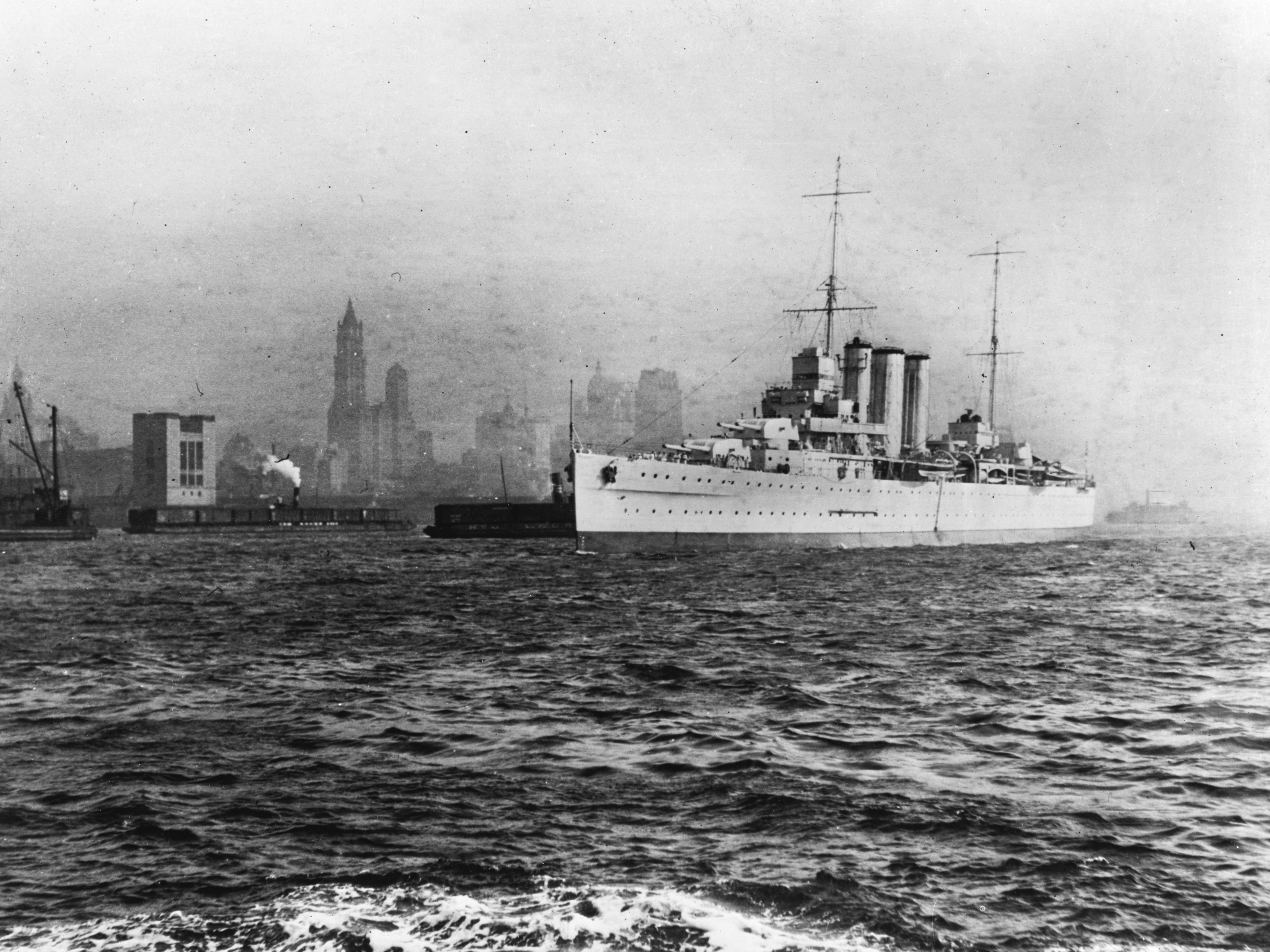 The Royal Australian Navy heavy cruiser HMAS Australia (D84) underway in Hudson River off New York City (USA)- heading north upstream, circa 1932-1933. The west shoreline of Manhattan looking towards the top of the Woolworth Building is visible in the distance. The squat, square structure just off-shore (near Canal Street in Lower Manhattan) is a ventilation structure for the trans-Hudson tunnel linking New York City and New Jersey.